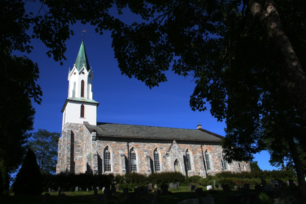 Sakshaug church at Inderøya in Nord-Trøndelag - consecrated in 1871 replacing Sakshaug gamle(old) church.